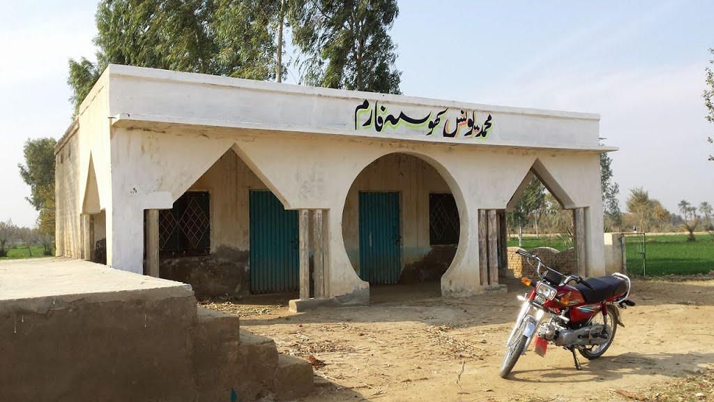 YOUNIS